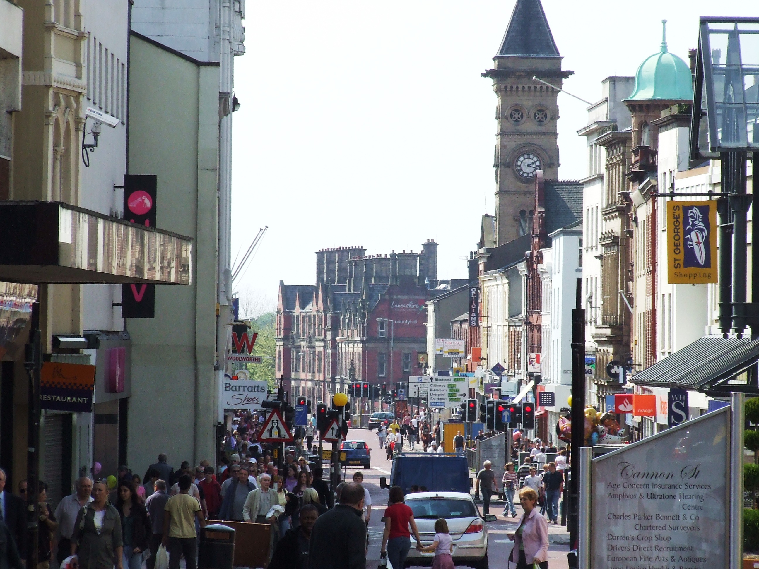 Fishergate, weekday afternoon